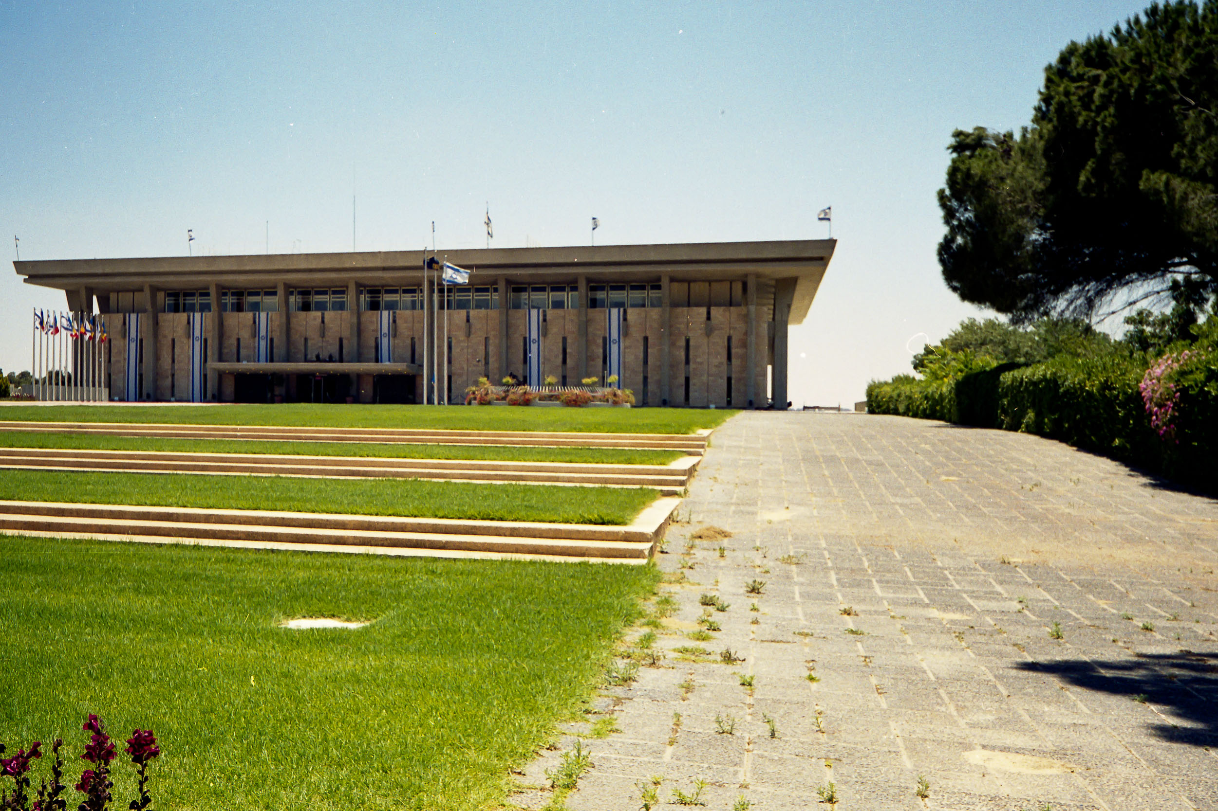 Scanning this item was made possible with the financial support of the Wikimedia Polska Association.